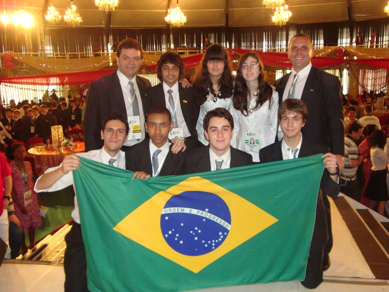 Brazilian Team (IJSO 2010)